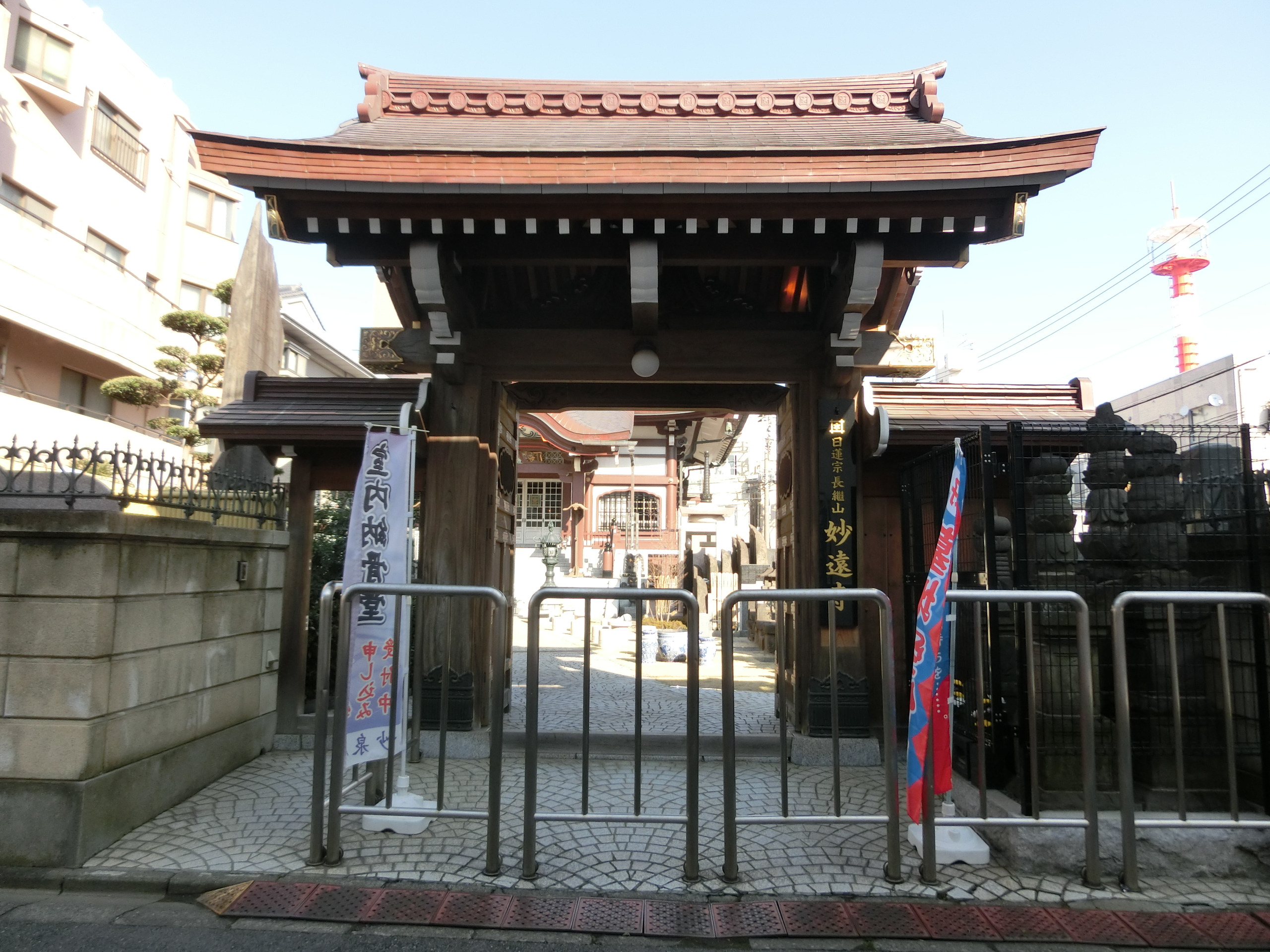 Myoon-ji (Kawasaki)